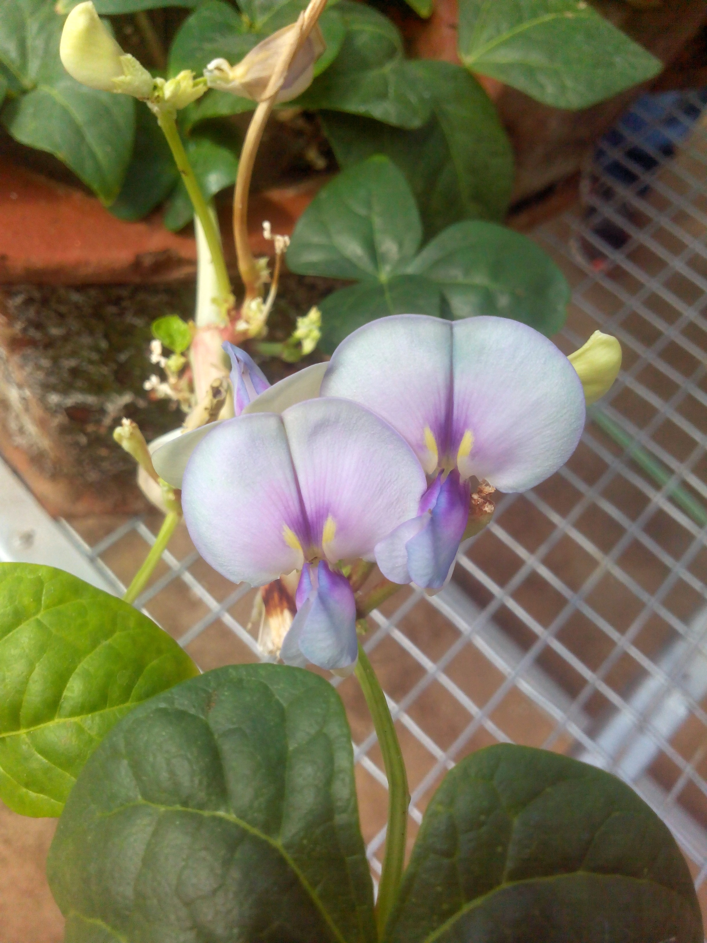 Cowpea flower